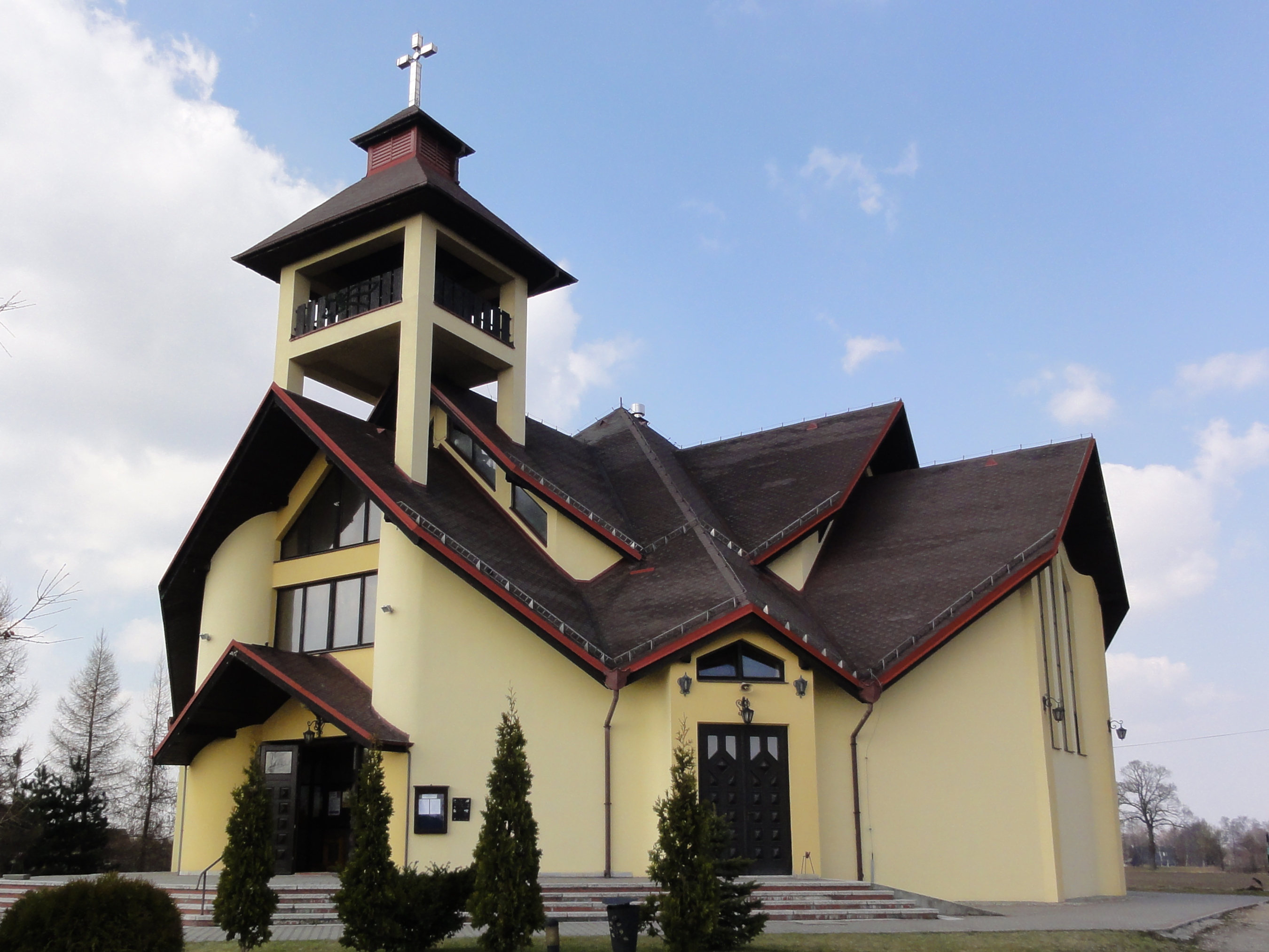 Catholic church of Our Lady of the Rosary in Zabłocie